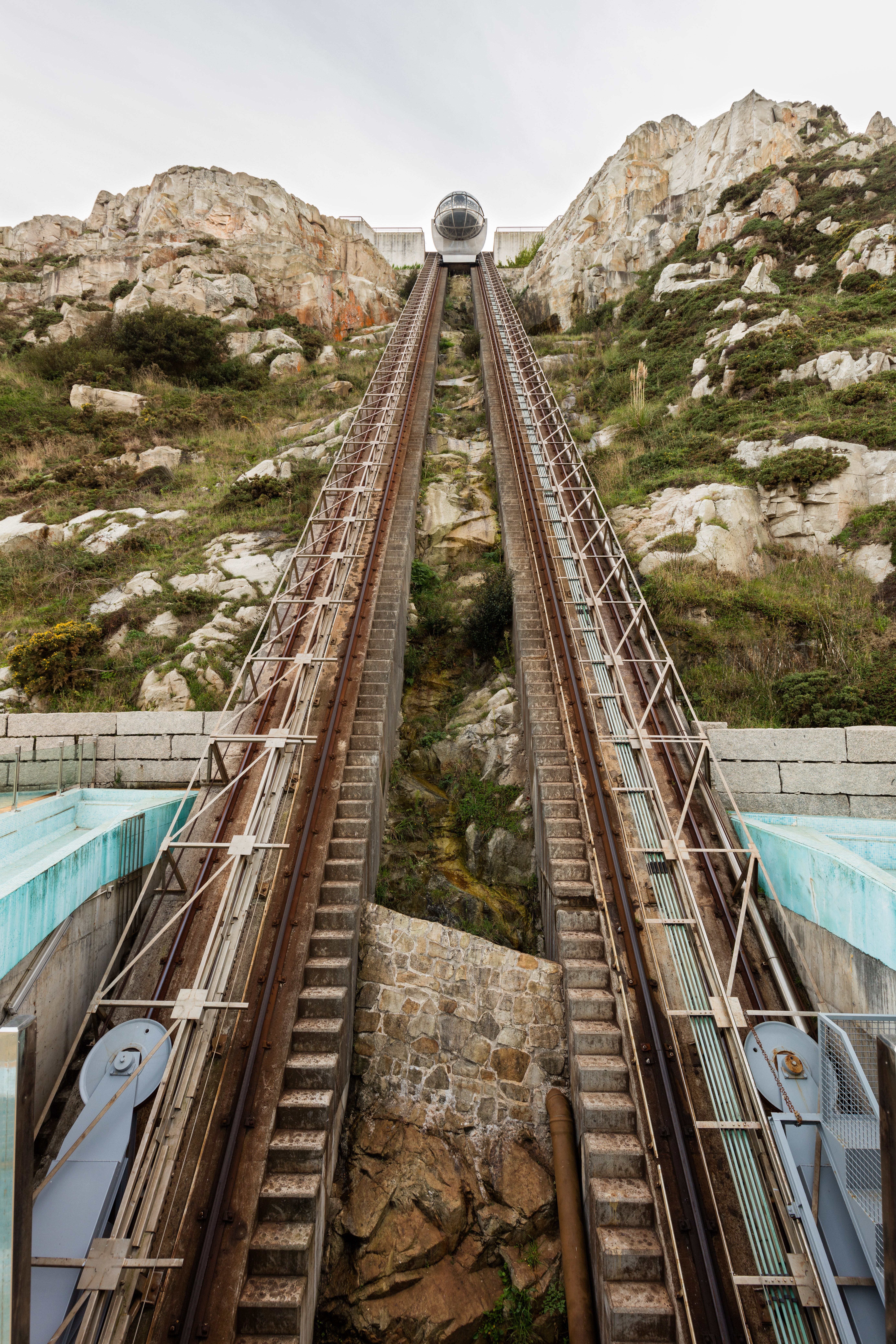 Panoramic lift to St Peter's Hill, La Coruña, Spain. Its track is 100 m long, and climbs 63 m. The lift has operated since 2007.